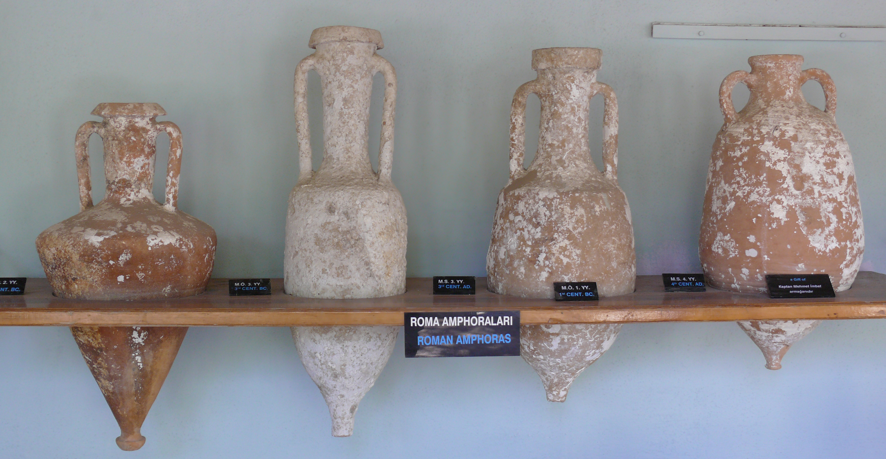 Roman amphoras at Bodrum castle (Turkey).